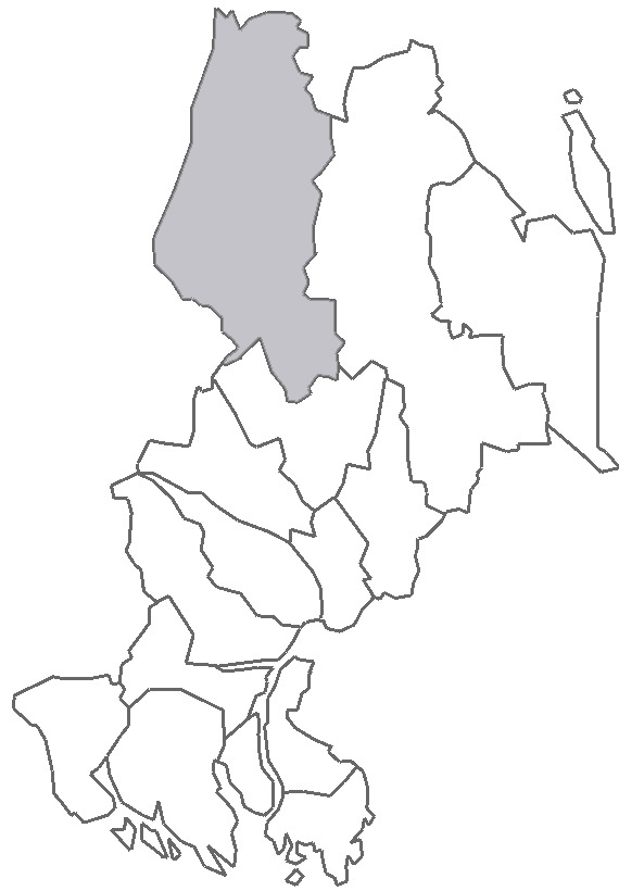 Map describing the location of Örbyhus Hundred in Uppsala County, Sweden.